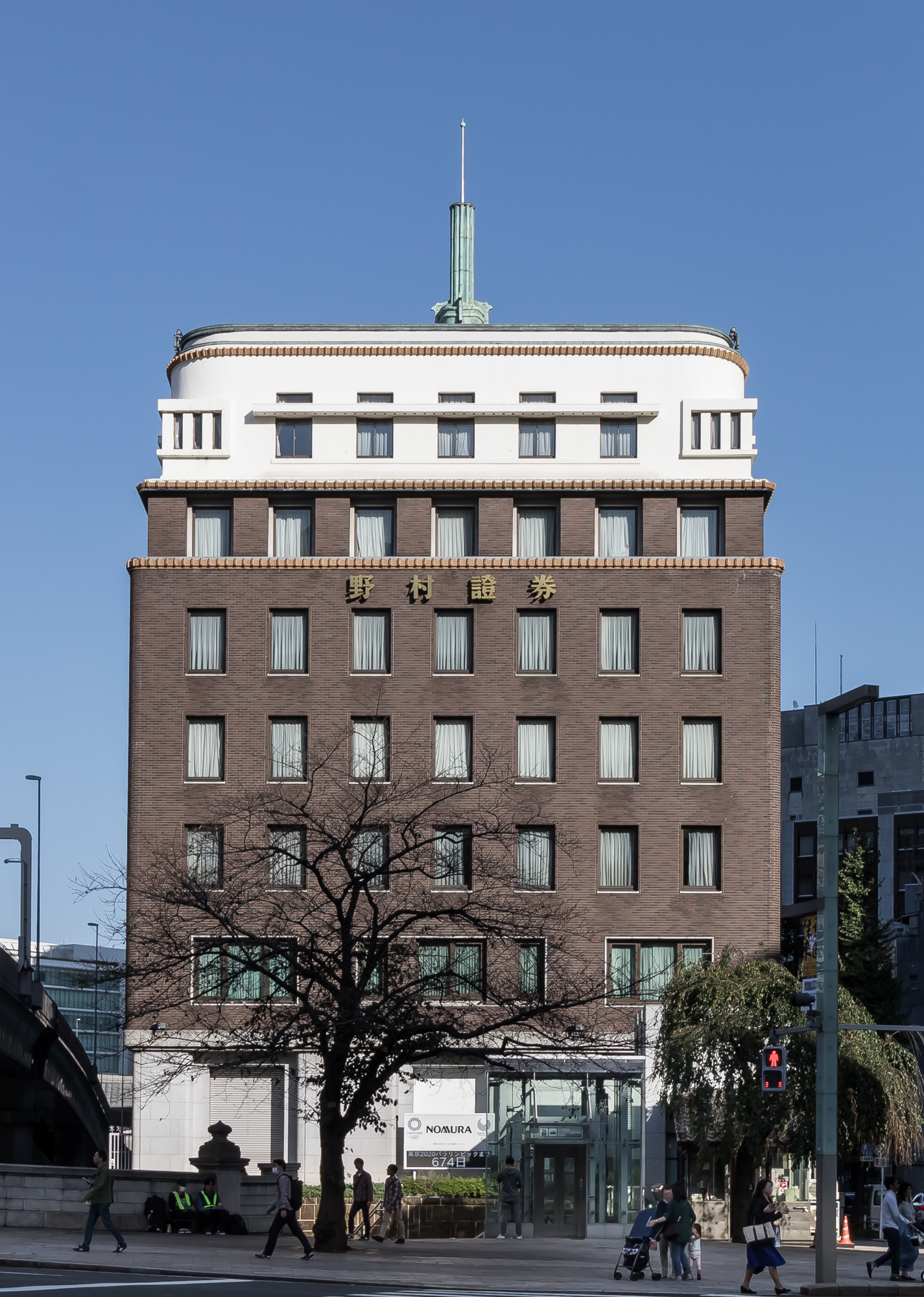 Nihonbashi Nomura Building, home for Nomura Holdings and Nomura Securities, in Chuo Ward, Tokyo, Japan